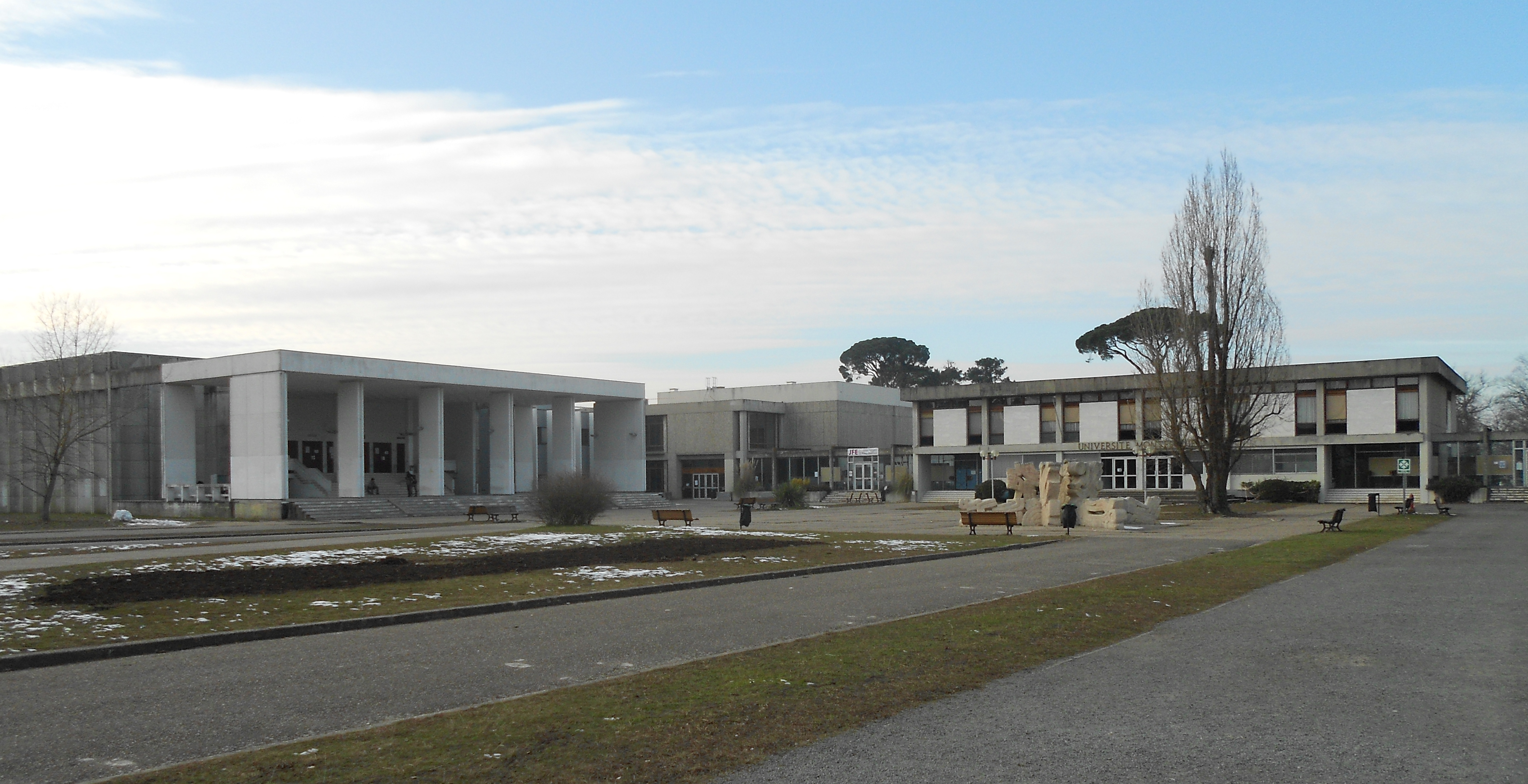 Main buildings of Montesquieu Bordeaux-IV University in February 2012.